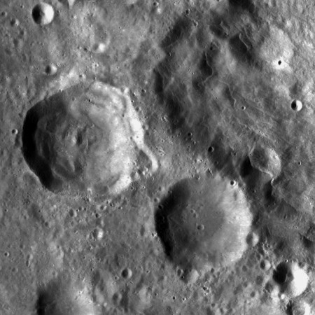 Katchalsky at center left, Viviani at lower right. Note layered ejecta from King at upper right